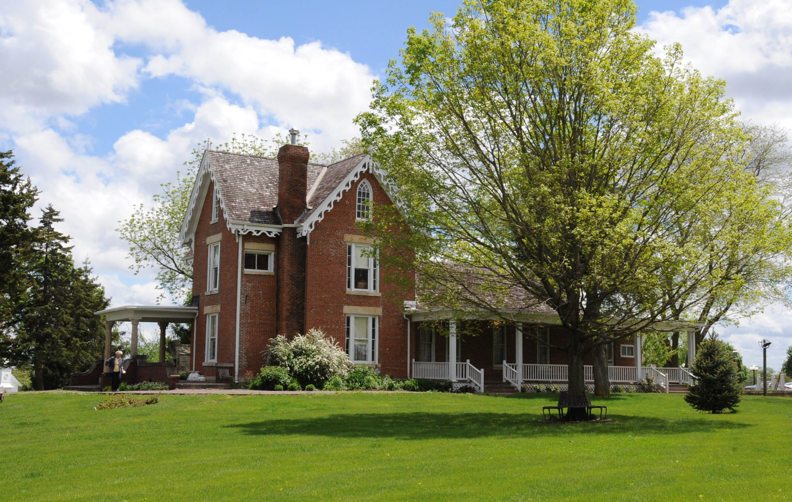 1856; THIS HOUSE IN THE CENTERPIECE FOR A COLLECTION OF HISTORIC BUILDINGS RUN BY THE MADISON COUNTY HISTORICAL SOCIETY ENTITLED HISTORY ON THE HILL